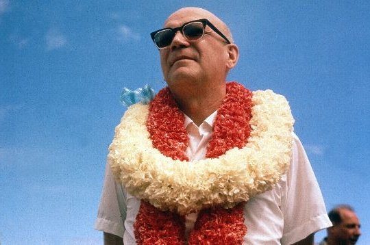 Photograph of the President of Finland, Urho Kekkonen, during his visit to the United States — here in Hawaii.